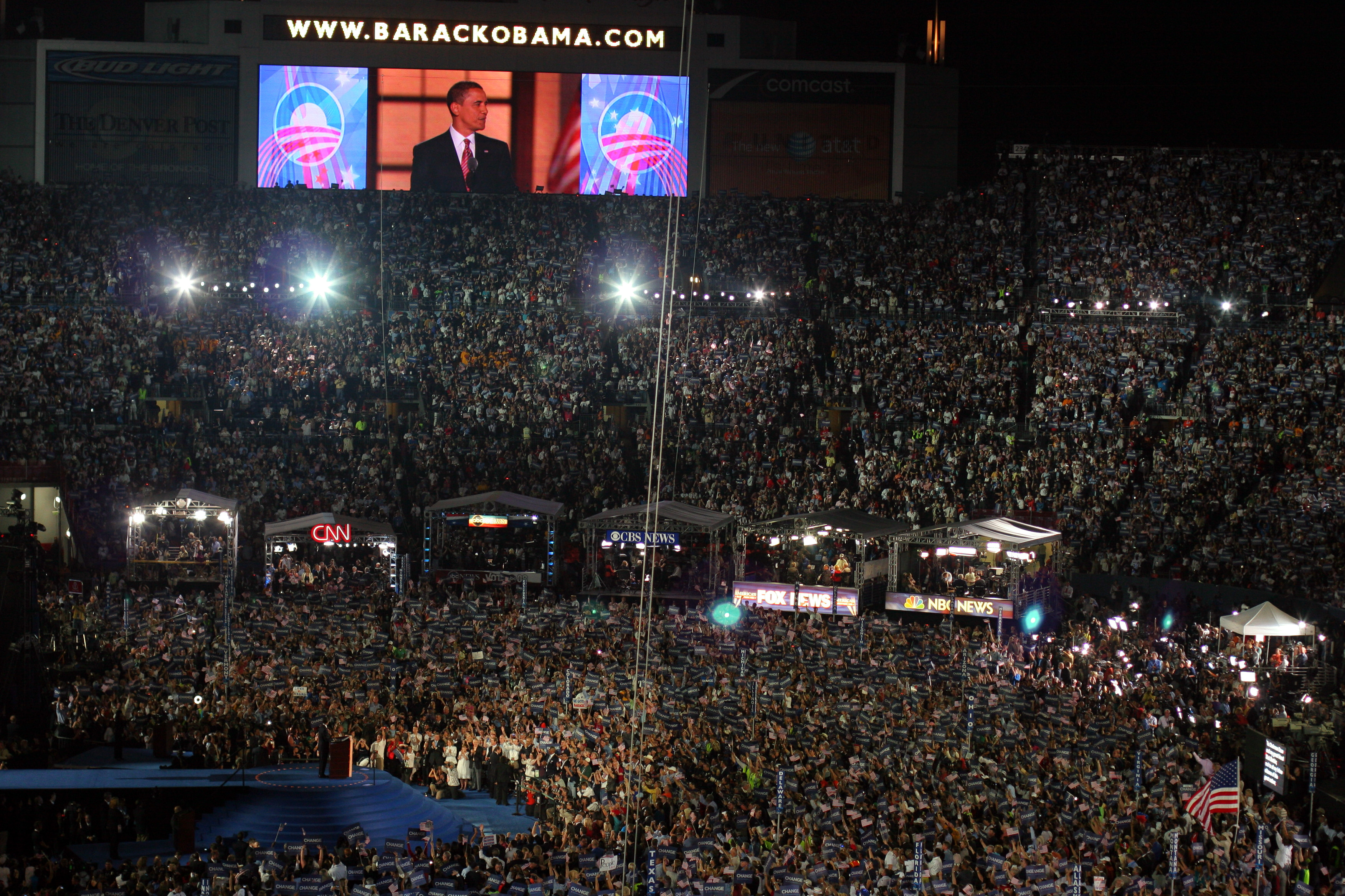 Barack Obama accepts the Democratic nomination for president